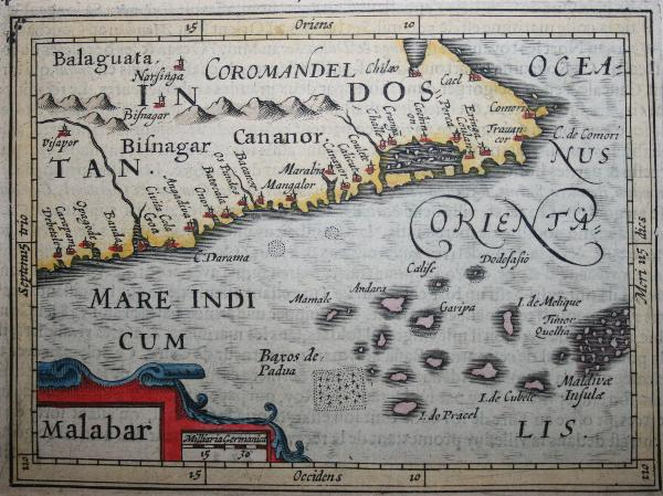 A horizontal Malabar Coast miniature map by Abraham Ortelius, Antwerp, c.1580, from the Epitome Theatri Orteliani; *a reprint by Petrus Bertius, 1630*; and *another Bertius version*, Amsterdam, c.1600-18